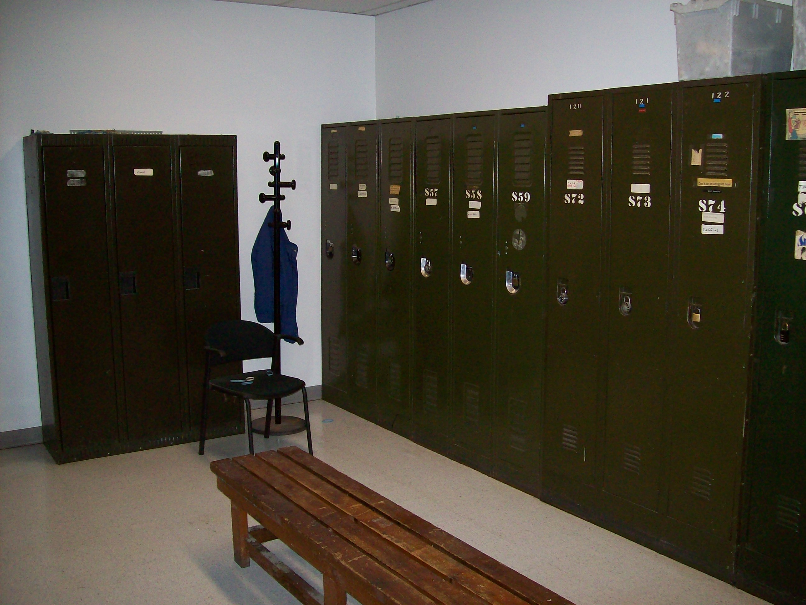 depot interior